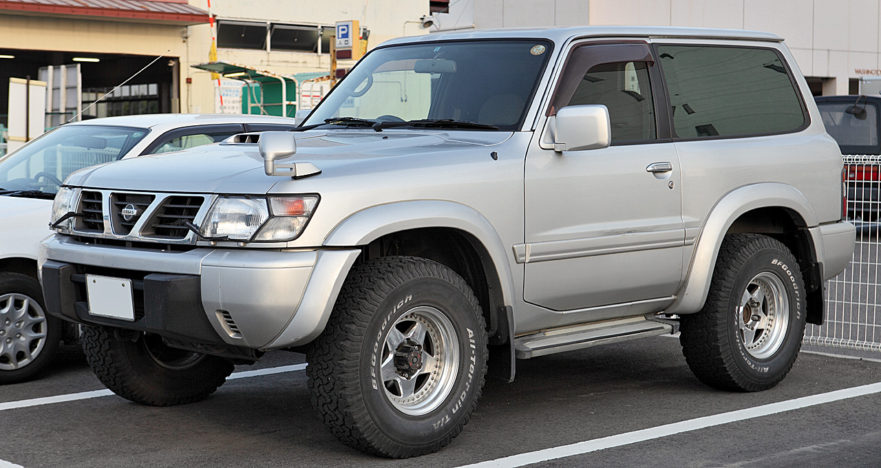 Nissan Safari 2 door hardtop Spirit-II 2.8D ( KD-WYY61 )